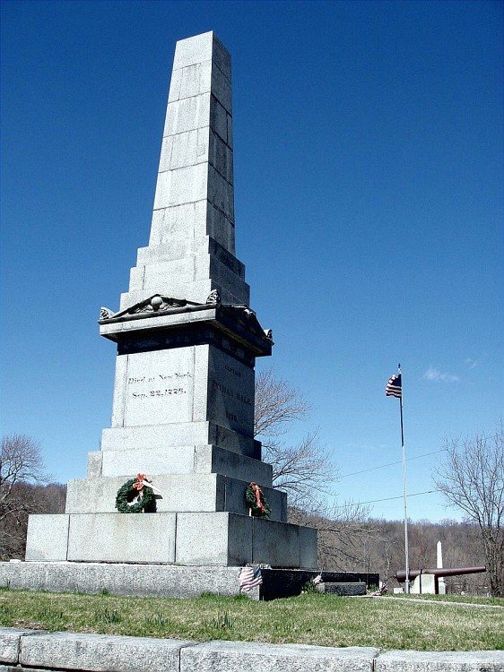 Memorial to American Revolutionary War soldier Captain Nathan Hale, Coventry, Connecticut.